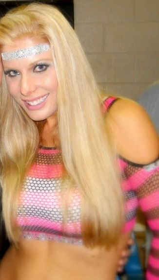 Kristin Astara backstage at an NWA Anarchy show.